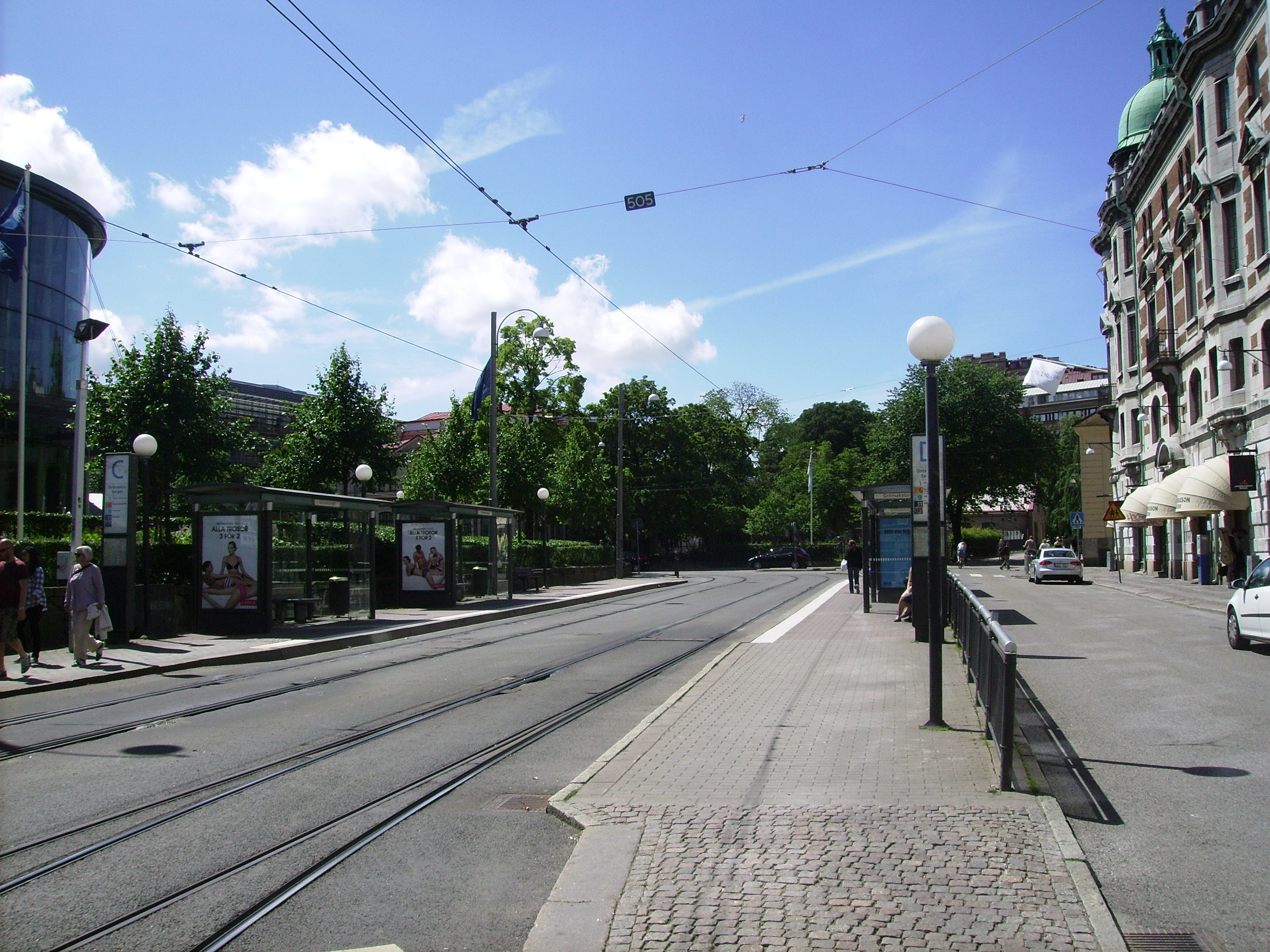 Picture of Grönsakstorget in Gothenburg